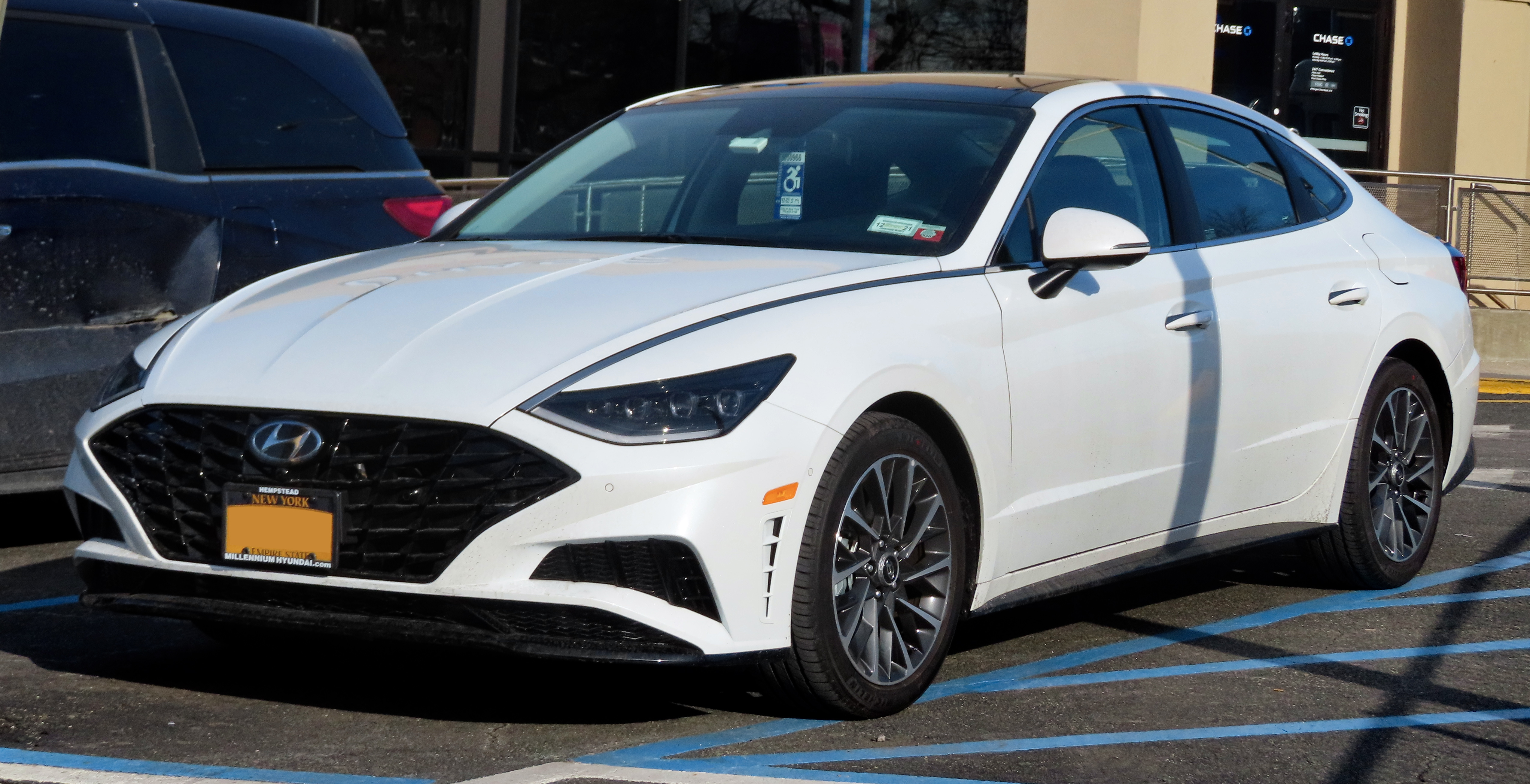 A 2020 Hyundai Sonata Limited photographed in Kew Gardens Hills, Queens, New York, USA